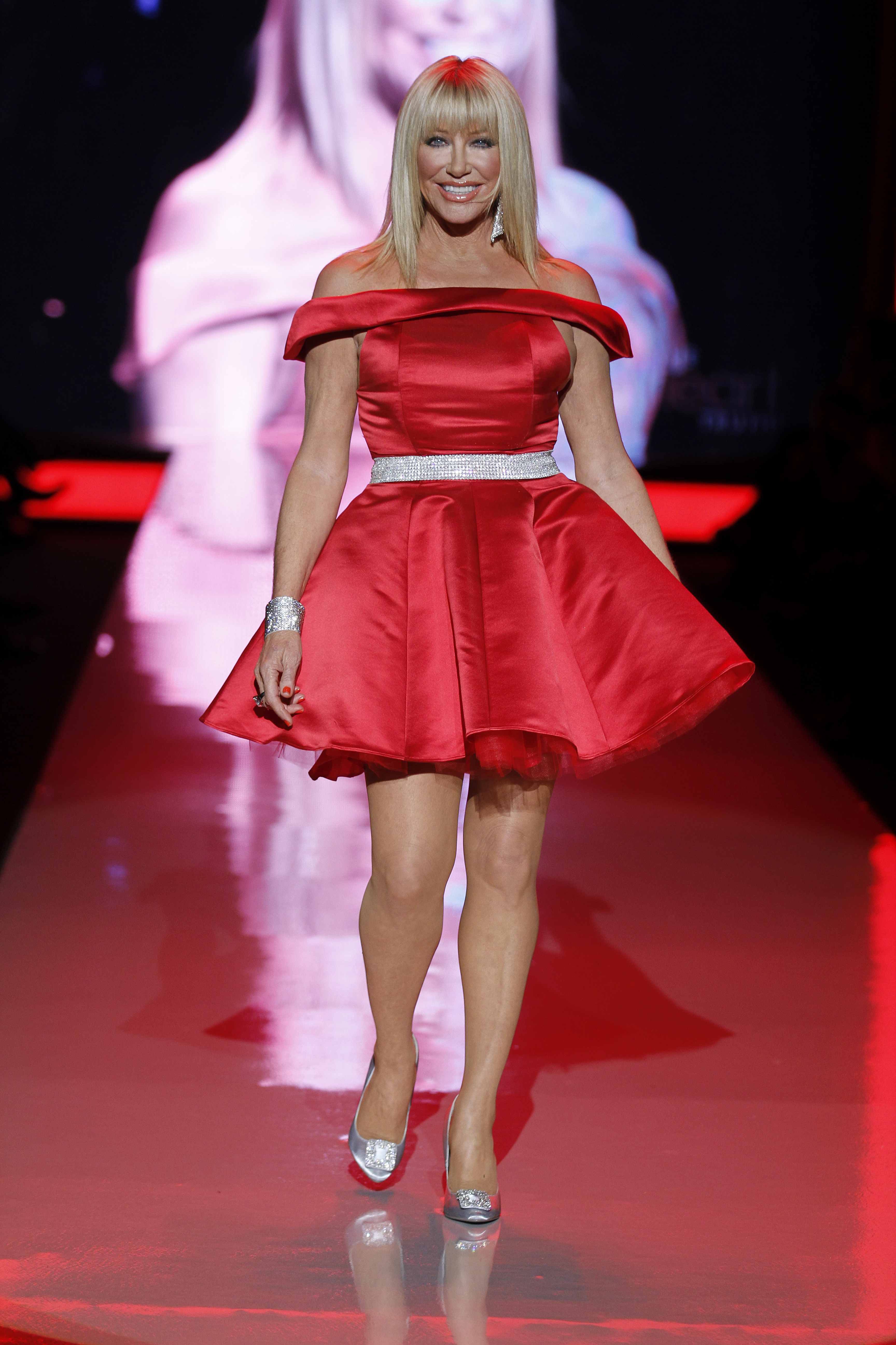 Making its debut at the Lincoln Center venue, The Heart Truth’s Red Dress Collection Fashion Show unveiled its 2011 collection of red dresses designed to celebrate the Red Dress as the national symbol for women and heart disease awareness. More than 20 of today’s top celebrities walked the runway in red dresses by America’s top designers to inspire women to take action to protect their heart health. The Heart Truth® is a national awareness campaign for women about heart disease sponsored by the National Heart, Lung, and Blood Institute (NHLBI), part of the National Institutes of Health, U.S. Department of Health and Human Services (HHS). ® The Heart Truth, its logo and The Red Dress are registered trademarks of HHS. Participation by Mercedes-Benz Fashion Week, Diet Coke, Swarovski, AOL, and Bobbi Brown does not imply endorsement by HHS.